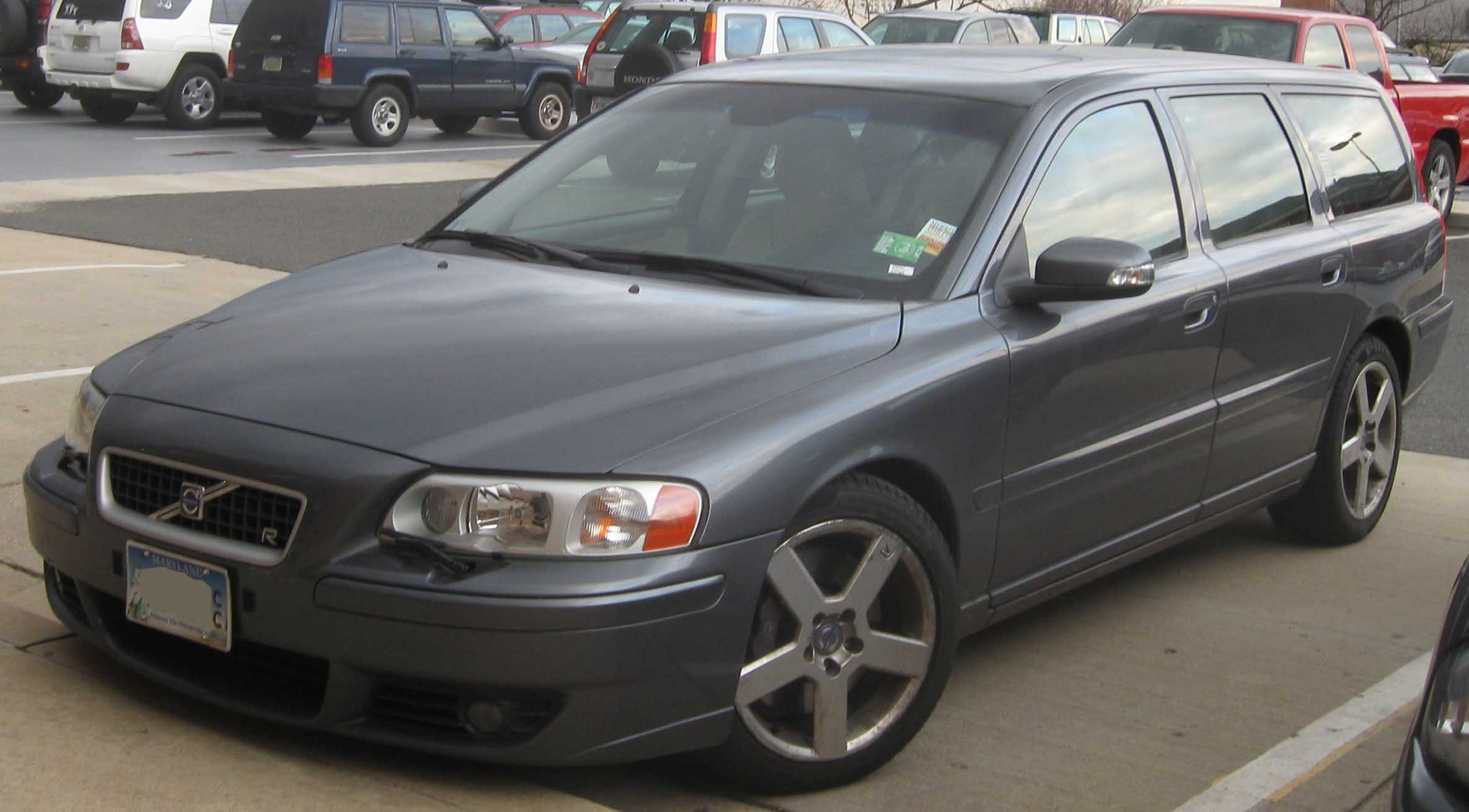 Volvo V70 photographed in College Park, Maryland, USA.